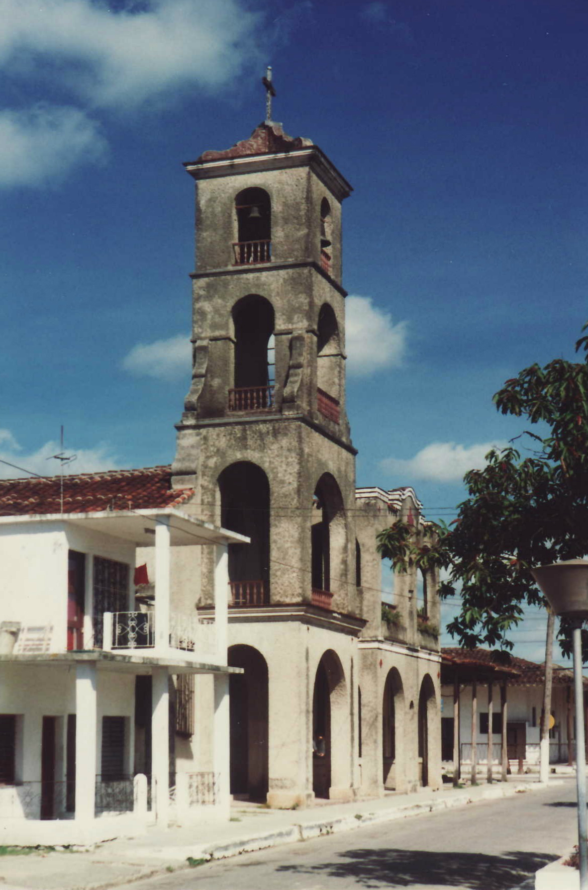 The San José de Jatibonico Church facade and bell tower, in Jatibonico, Cuba.